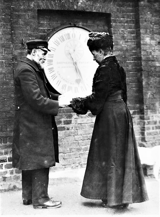 Ruth Belville at the Royal Greenwich Observatory